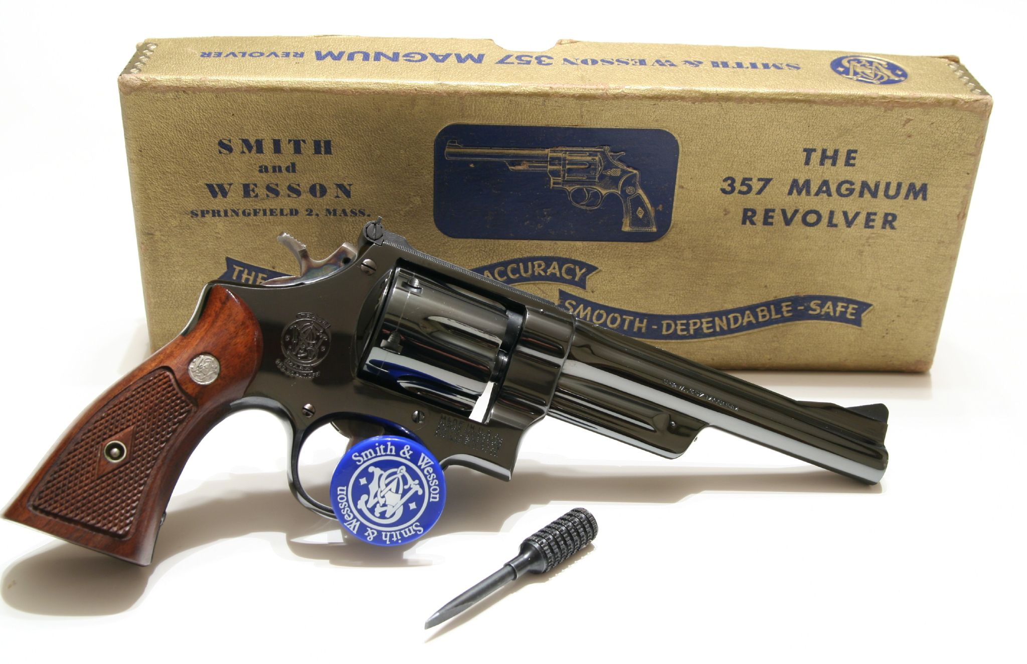 S&W Pre Model 27 (5 Screw) Circa 1950 6 inch barrel With original box and sight adjustment tool